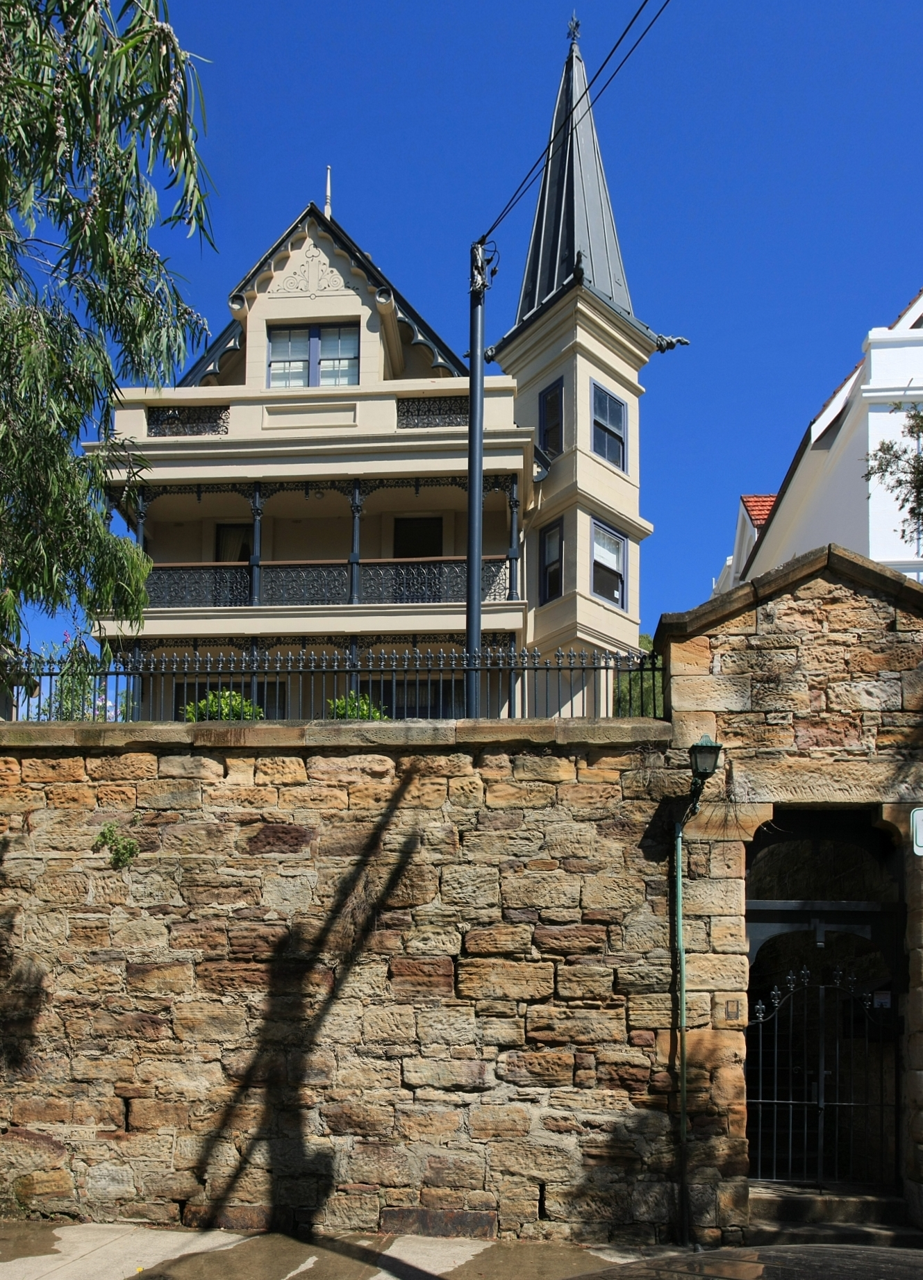 3 Historical Houses in Johnston St Annandale.